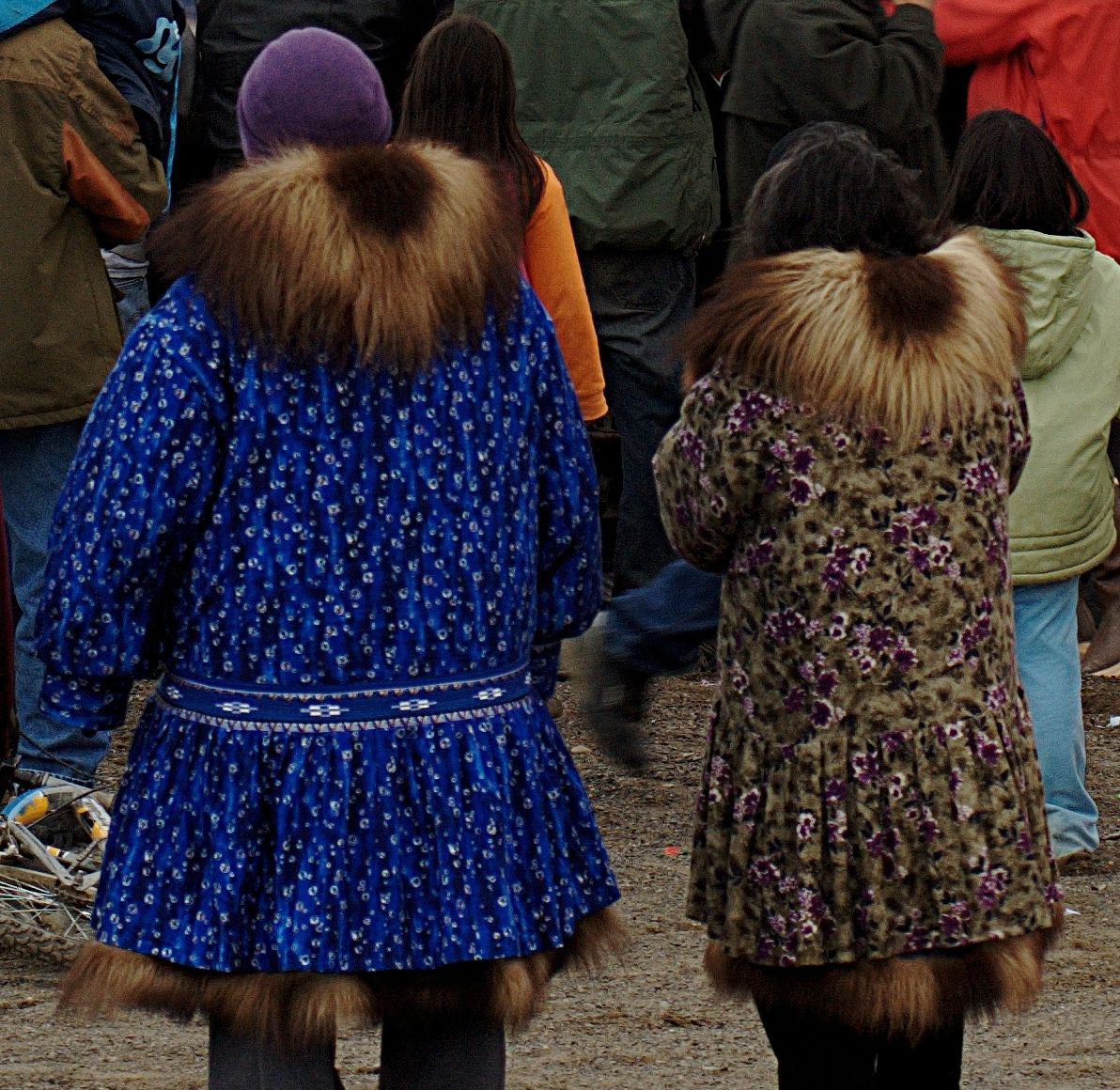 Blanket toss at Nalukataq in Barrow (cut of)